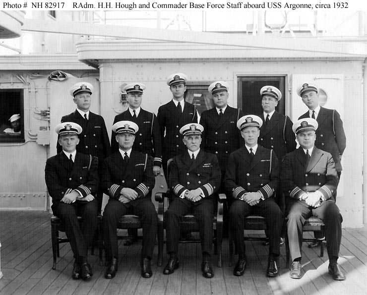 Rear Admiral Henry H. Hough, USN, Commander, Base Force, U.S. Fleet With officers of his staff, on board USS Argonne (AS-10), circa 1932. Seated in the front row are (left to right): Commander Leo L. Lindley, Aide & Force Material Officer; Captain Issac C. Kidd, Chief of Staff; Rear Admiral H.H. Hough, ComBaseFor; Captain Ellsworth H. Van Patten, (SC), Aide & Force Supply Officer; and Lieutenant Commander Jacob H. Jacobson, in charge of Battle Force Camera Party. Among those in the rear row are (in no particular order): Lieutenant Thomas F. Darden, Jr., Aide & Flag Secretary; Lieutenant Walter E. Moore, Aide & Force Personnel Officer; and Lieutenant Llewellyn J. Johns, Aide and Flag Lieutenant.